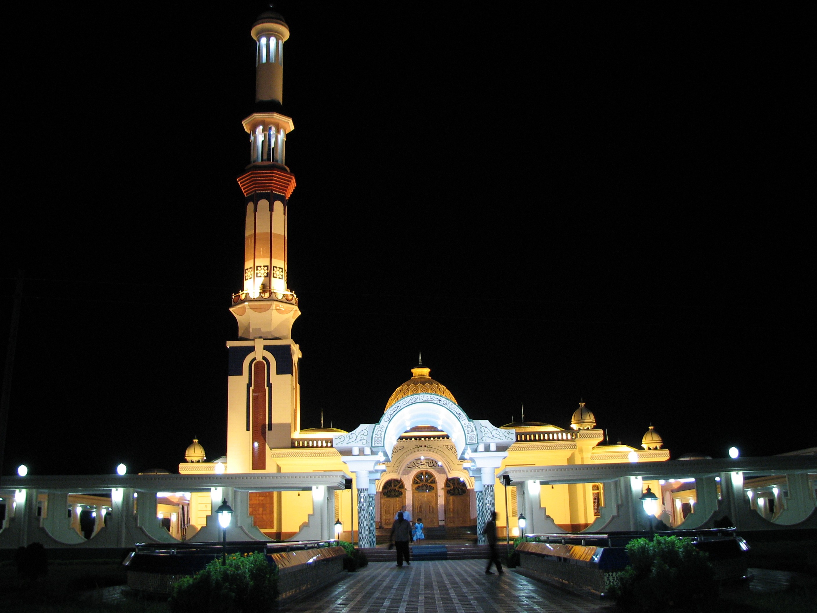 Baitul Aman Mosque, Guthia, Barisal, Bangladesh.